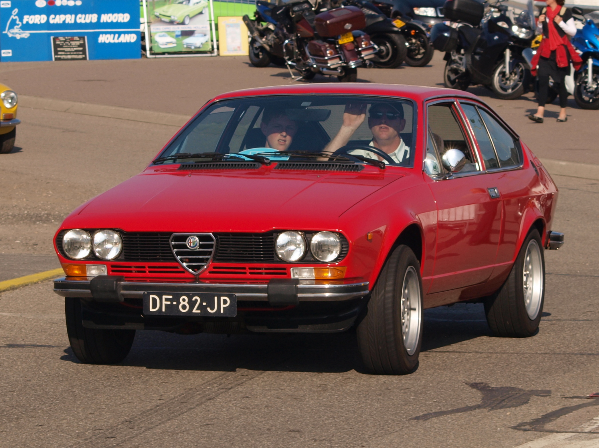 Photographed at the Nationaal Oldtimer Festival Zandvoort 2009, The Netherlands. OLYMPUS DIGITAL CAMERA